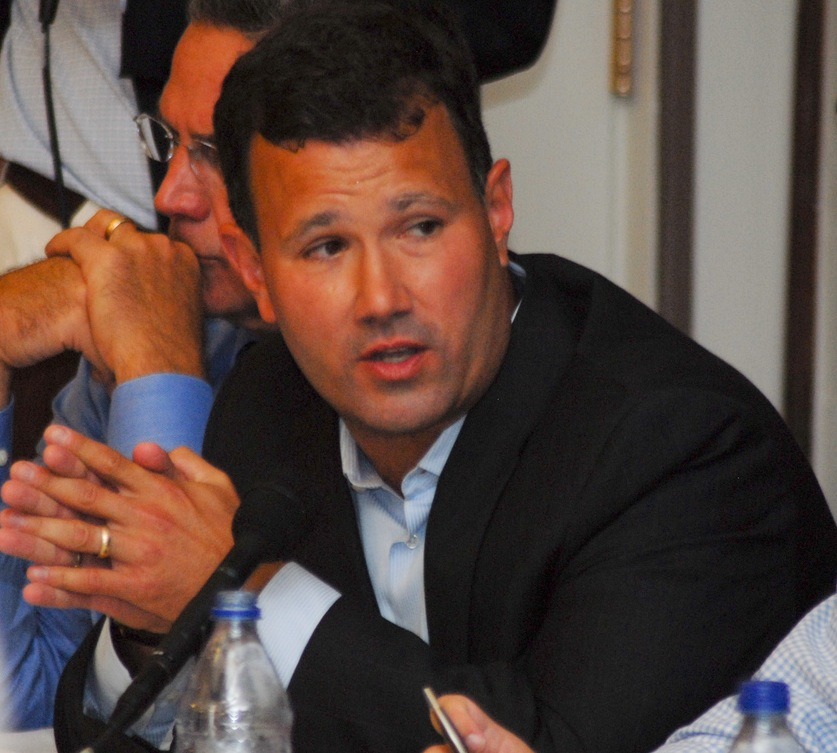 "T.J. Quinn of ESPN interjects his views on the roles of media in sports."